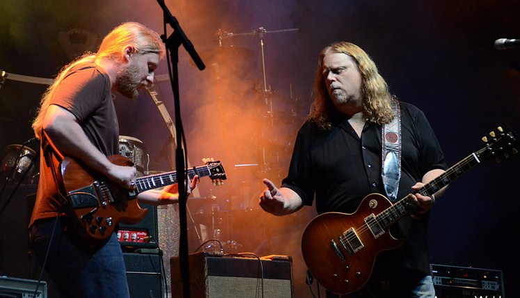 Allman Brothers with Roosevelt Collier performing live at All Good Music Fest (2012).